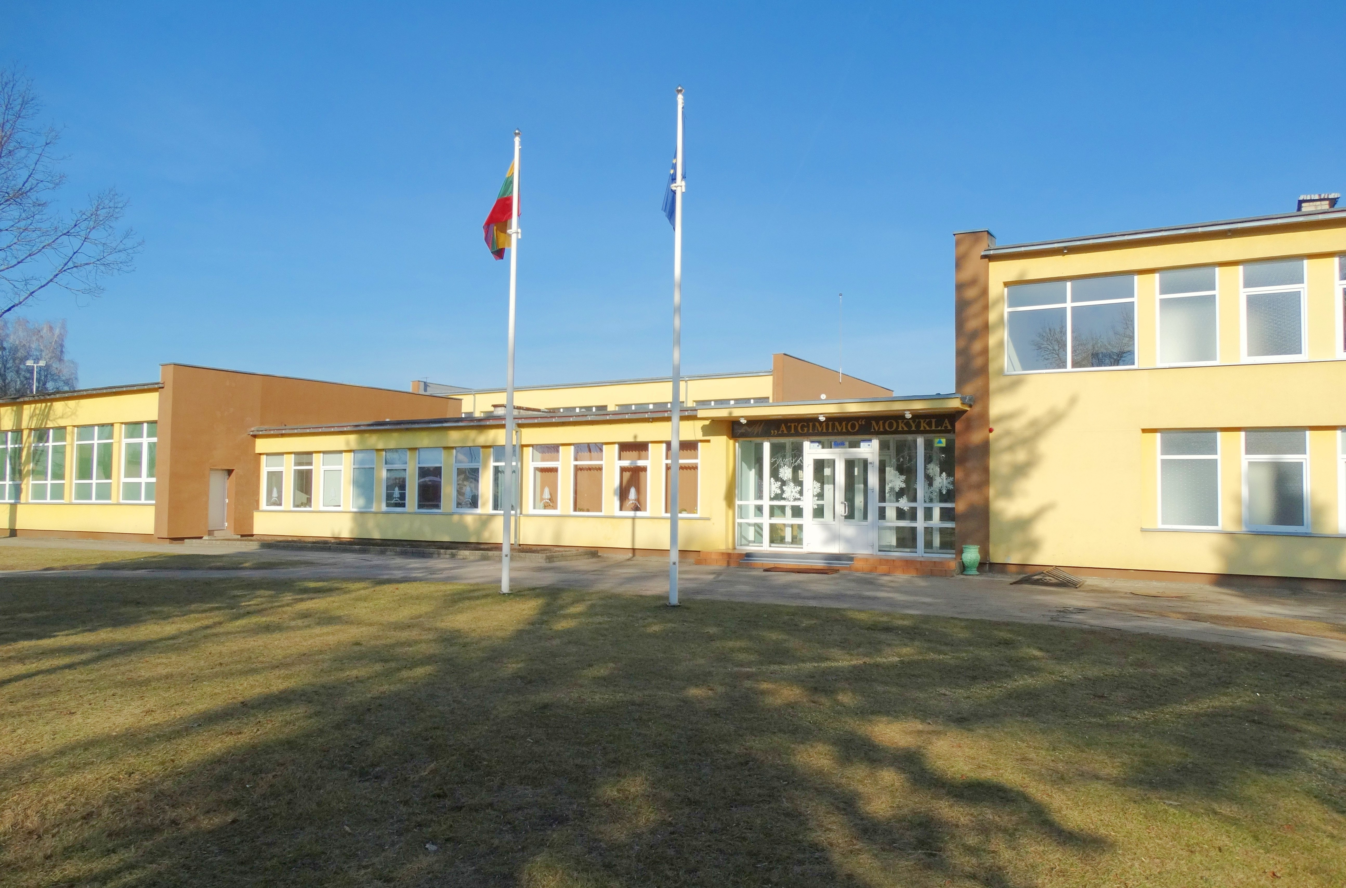 Atgimimas School, Druskininkai, Lithuania